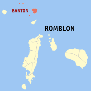 Map of Romblon showing the location of Banton